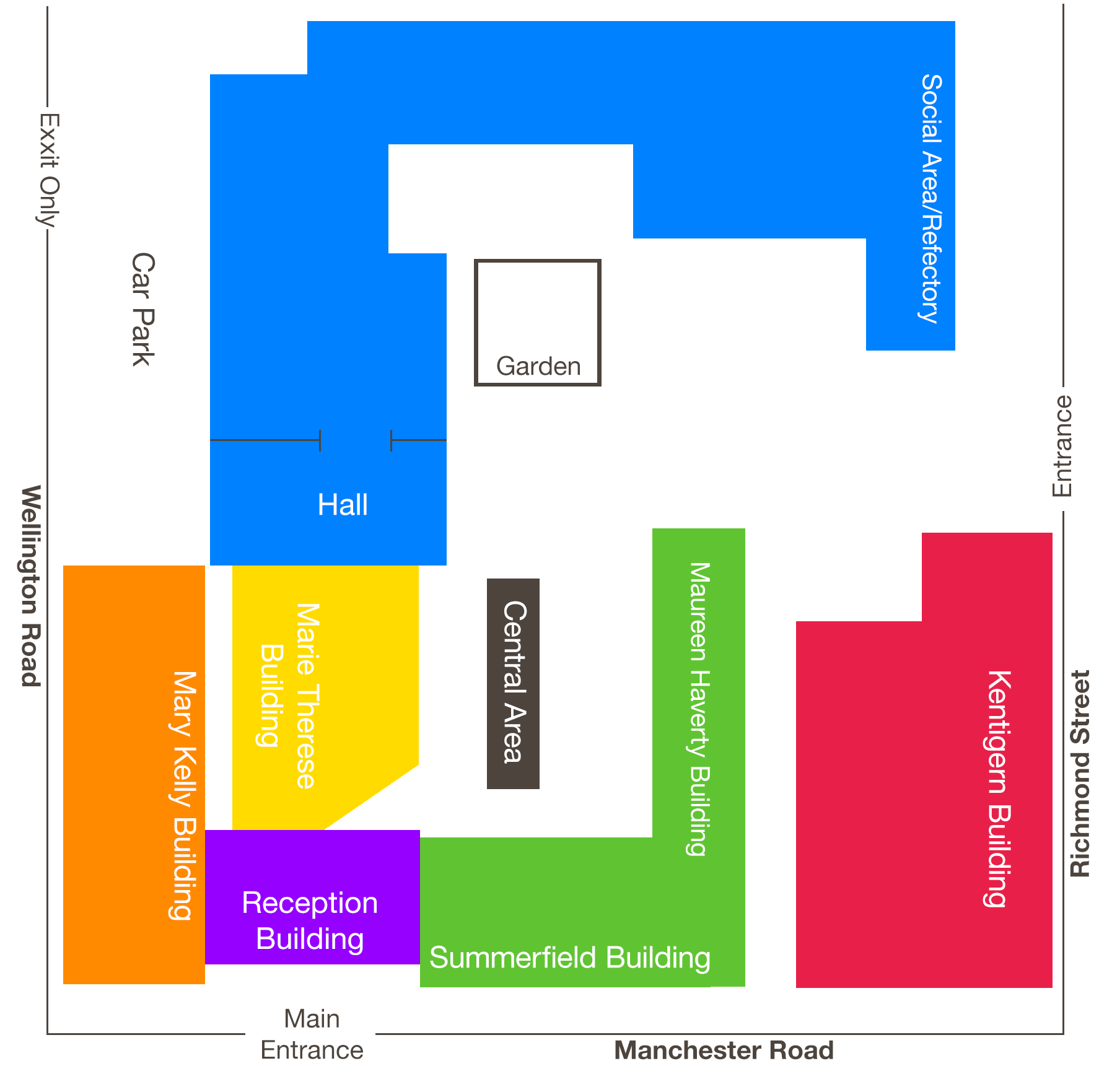 College campus map depicting the buildings and facilities within the College site.